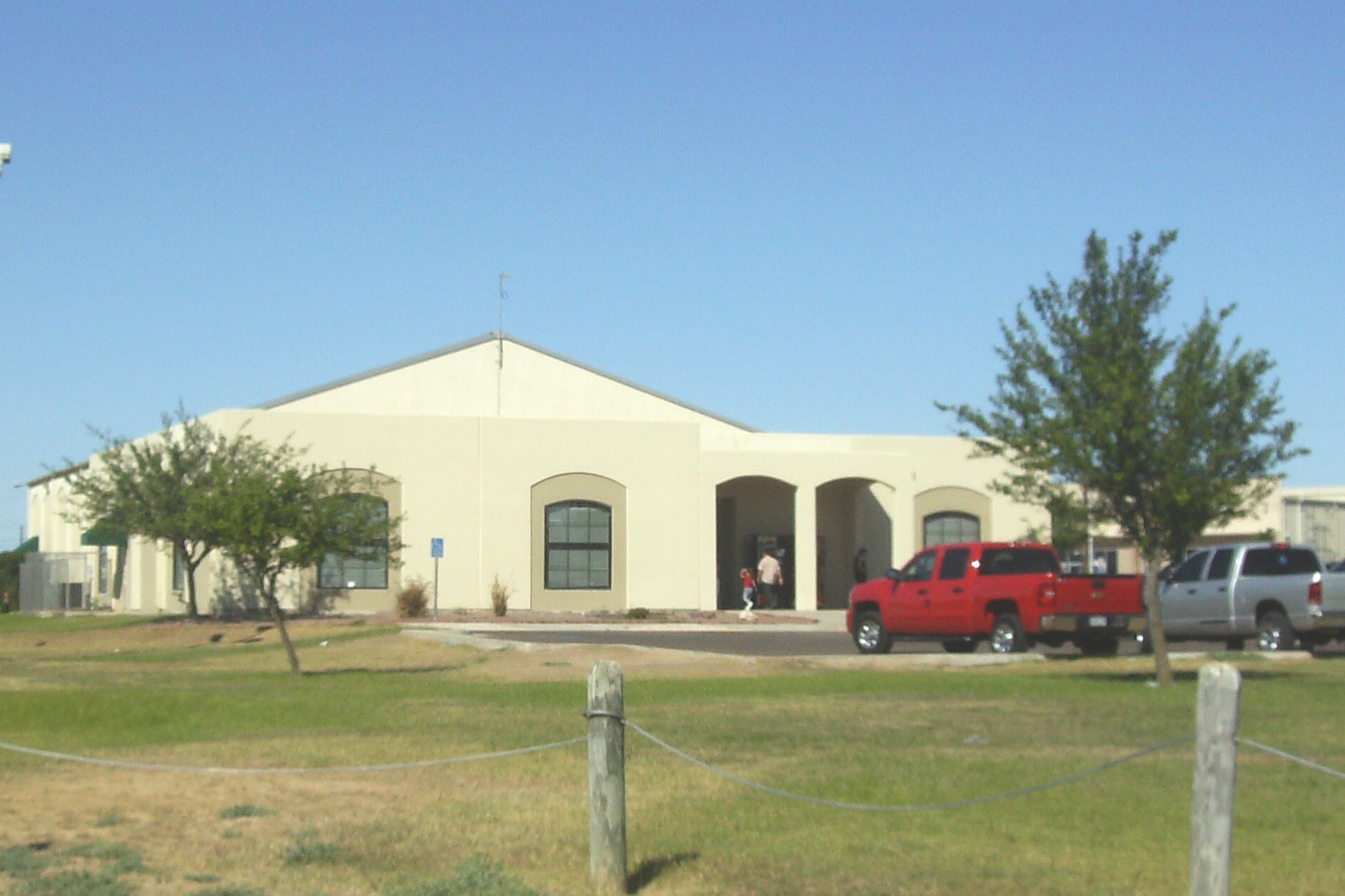 NE Hillside Recreational Center